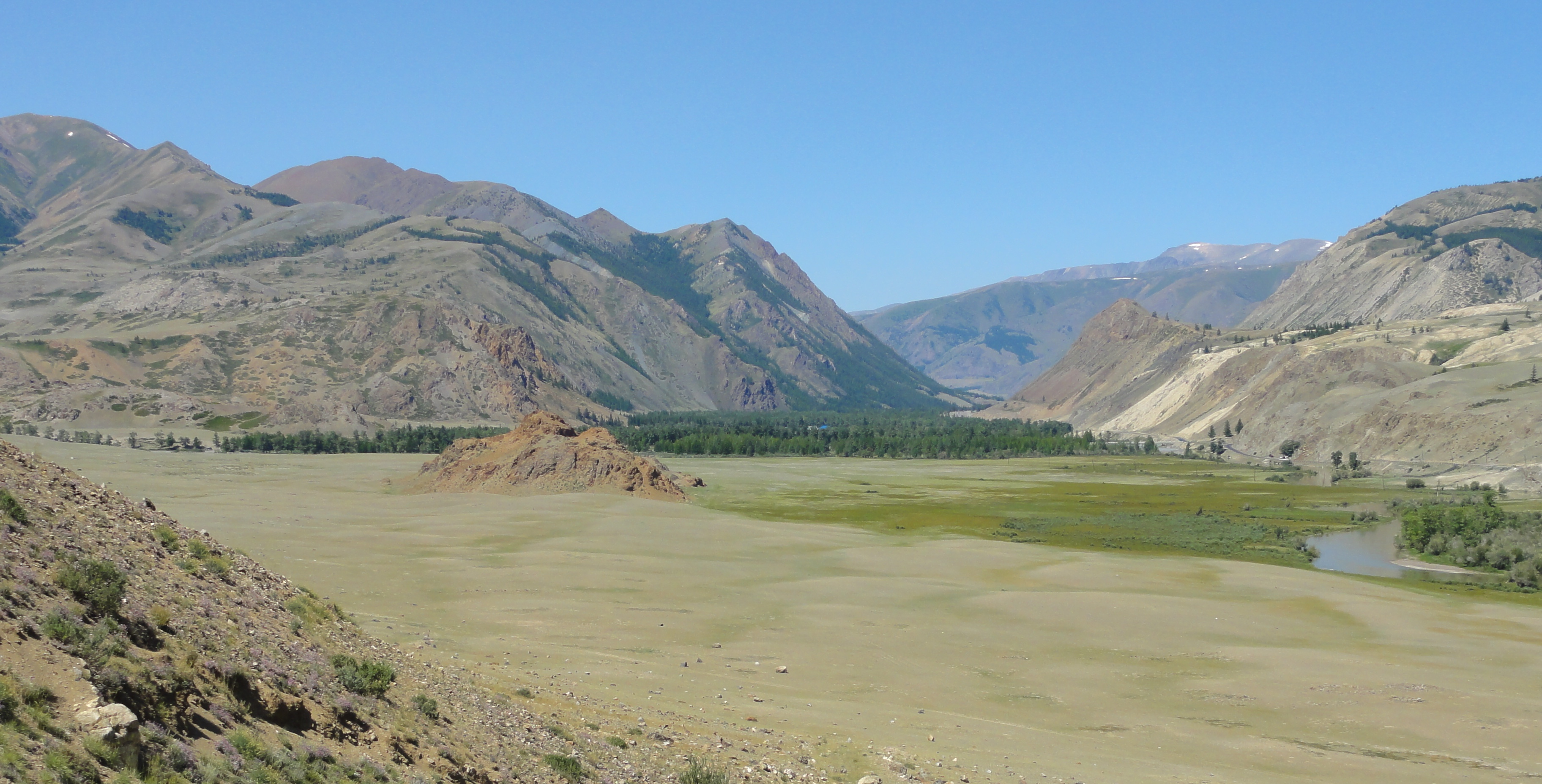 This is the outlet of the Chuya Basin looking in the direction of flow (NW). Related to the Altay flood